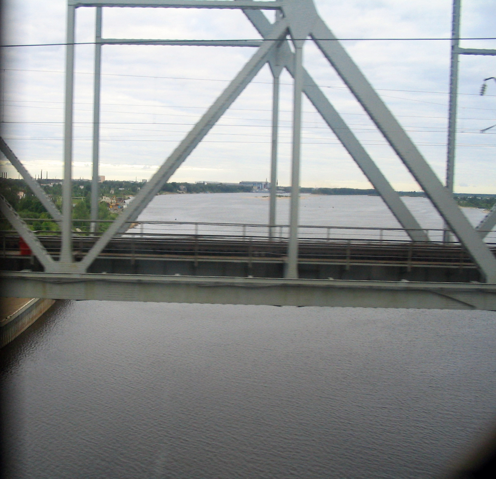 Picture of the Vyatka River in Russia as taken from the trans-Siberian railroad. Taken by me 7/06, all rights released. I know it's not very good!